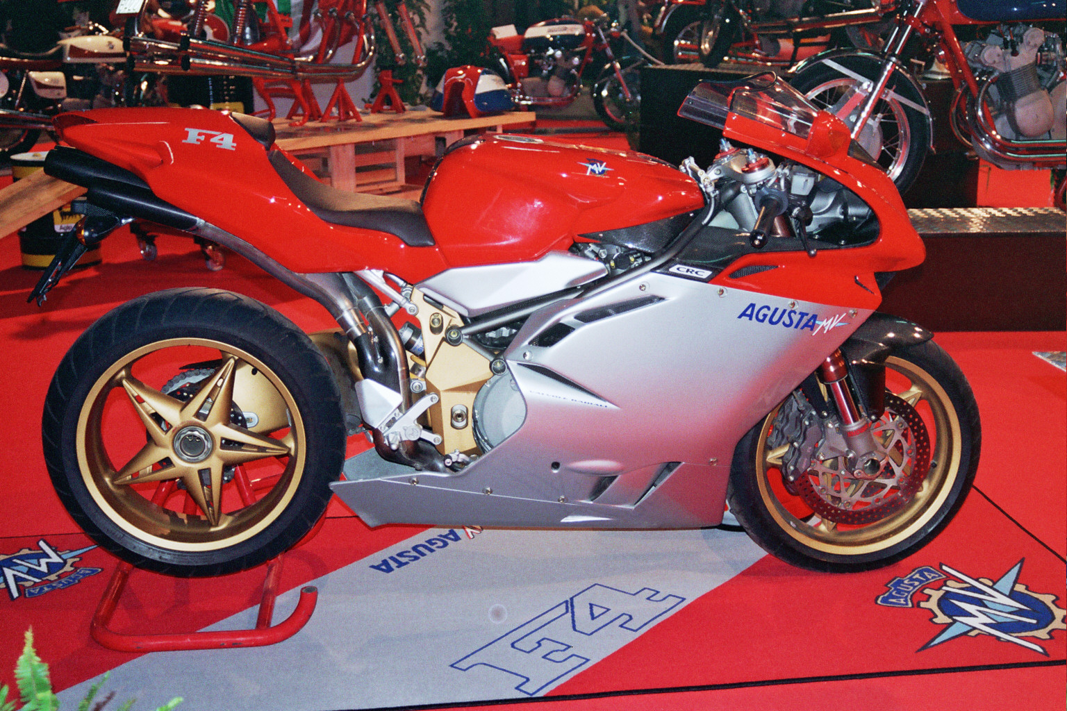 MV Agusta F4 Serie Oro in Auto Retro expo (Barcelona).